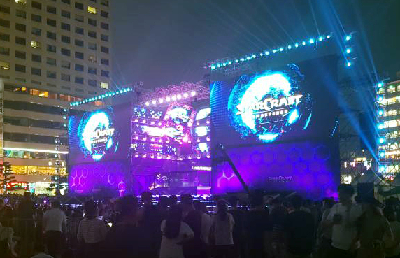 Launch event of Starcraft: Remastered at Gwangalli Beach